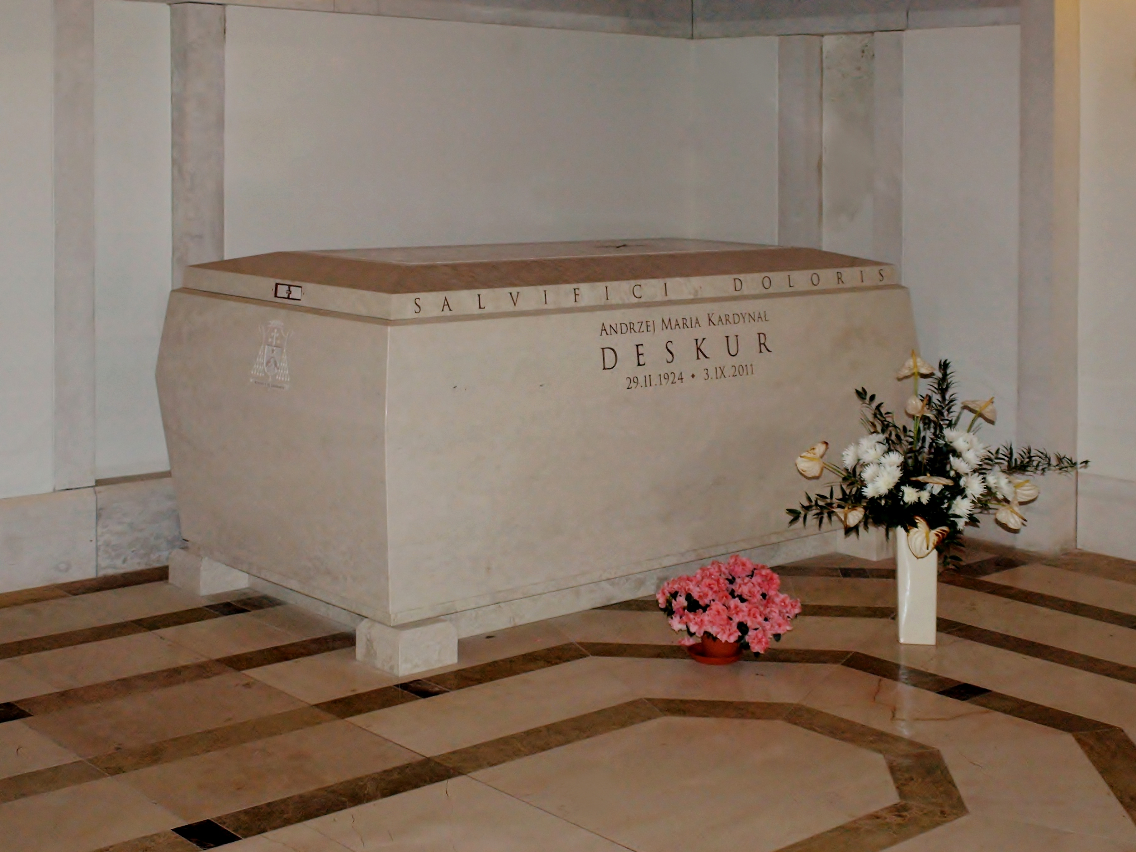 Sarkfoag of Cardinal Andrzej Maria Deskur in John Paul II Center "Be not afraid"